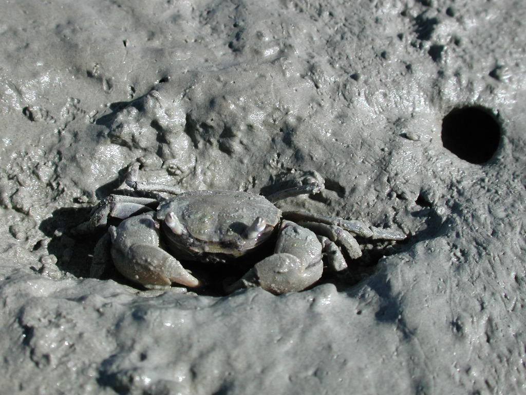 Tunnelling mud crab in Nelson Haven, 3cm in diameter including legs.